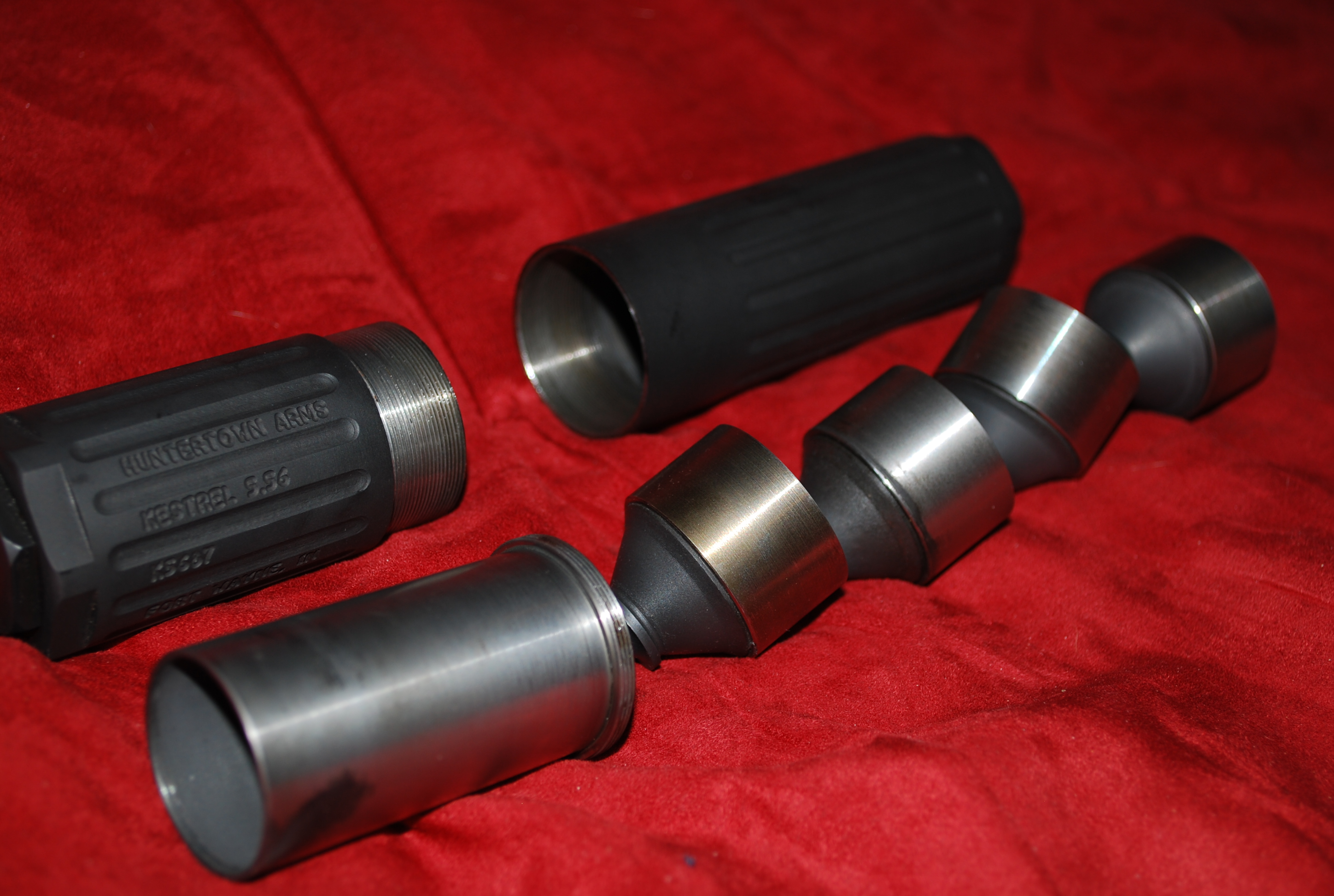 Huntertown Kestrel 5.56 firearm silencer disassembled and showing blast chamber, baffles, and sections of the outer tube.